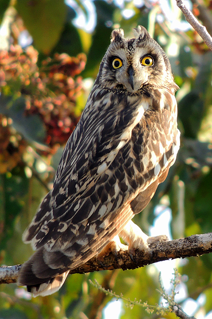 Short-eared owl (Asio flammeus) in Mangaon, Raigad, Maharashtra, India